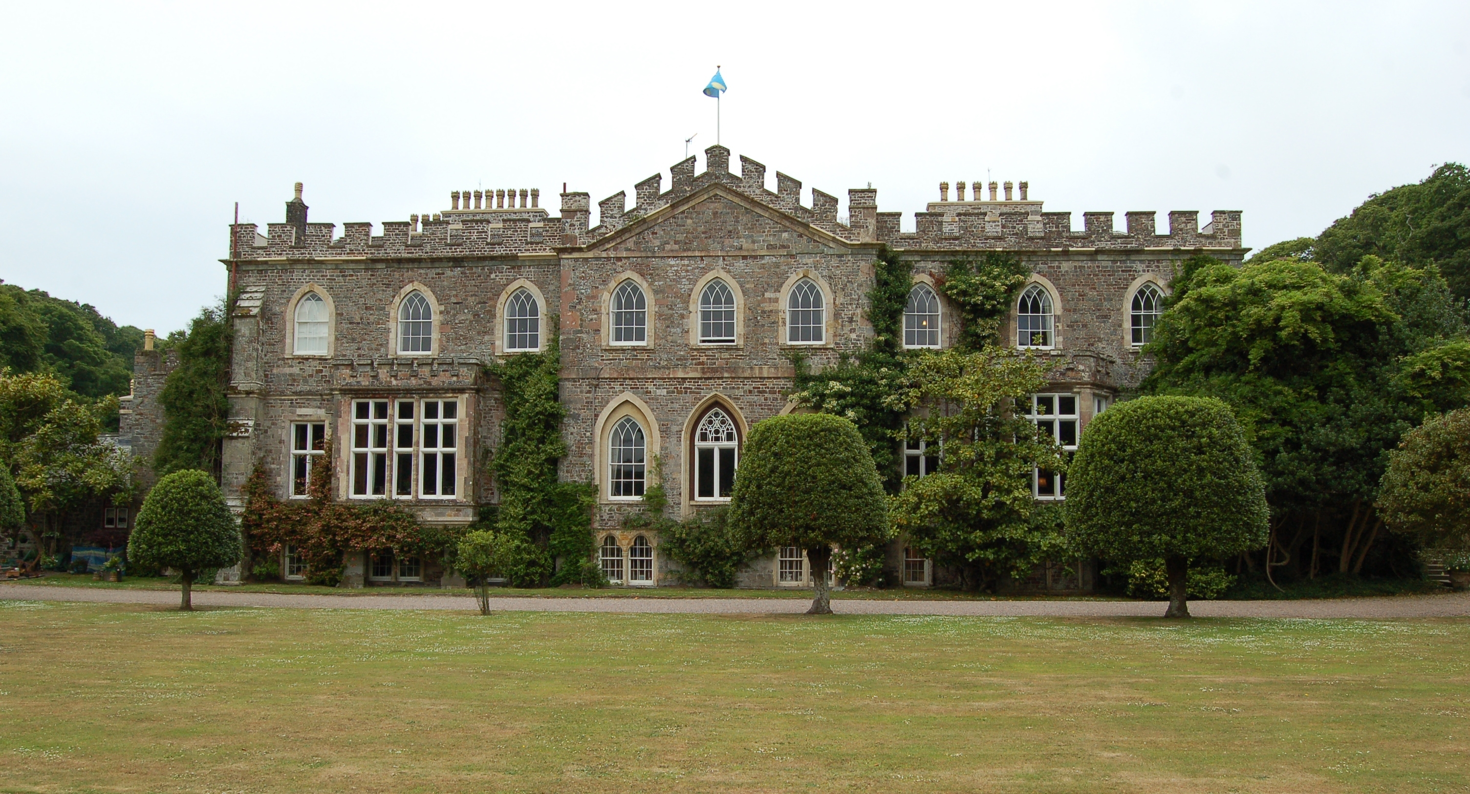 Photograph of the east-facing aspect of Hartland Abbey in Devon.